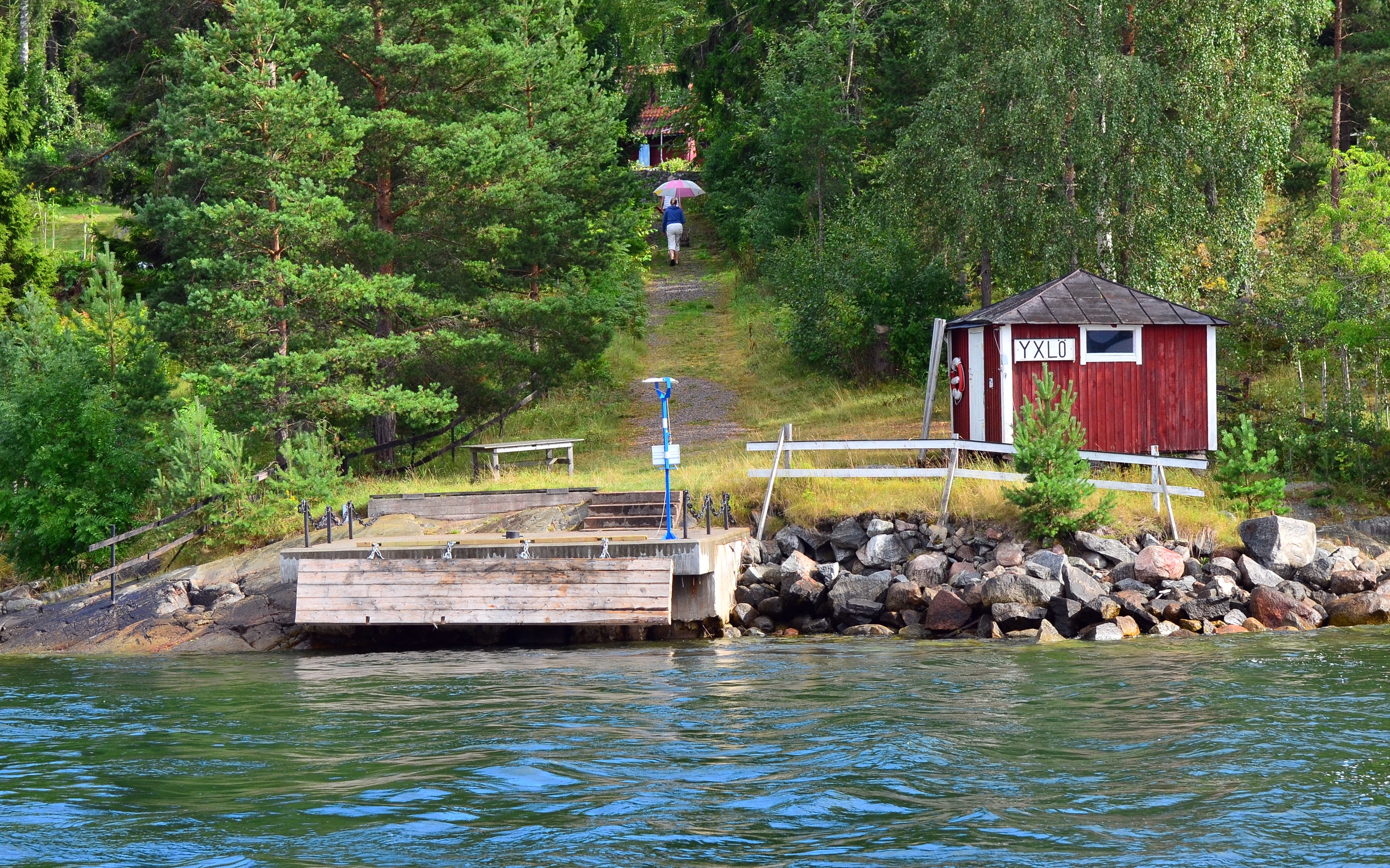 Yxlö jetty, Yxlan, Stockholm archipelago, Sweden